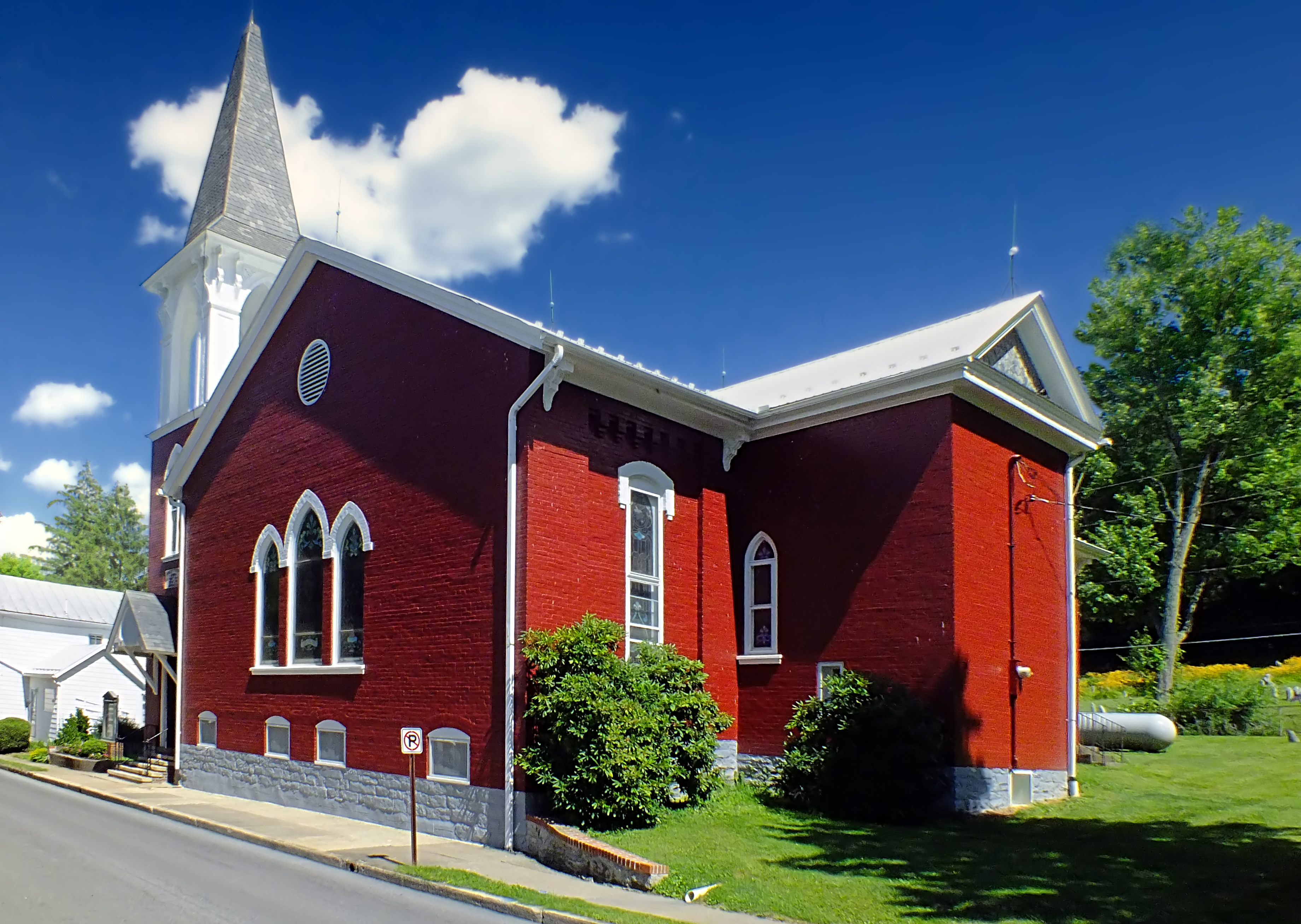 Small church within the borough of Mifflinburg, Union County.